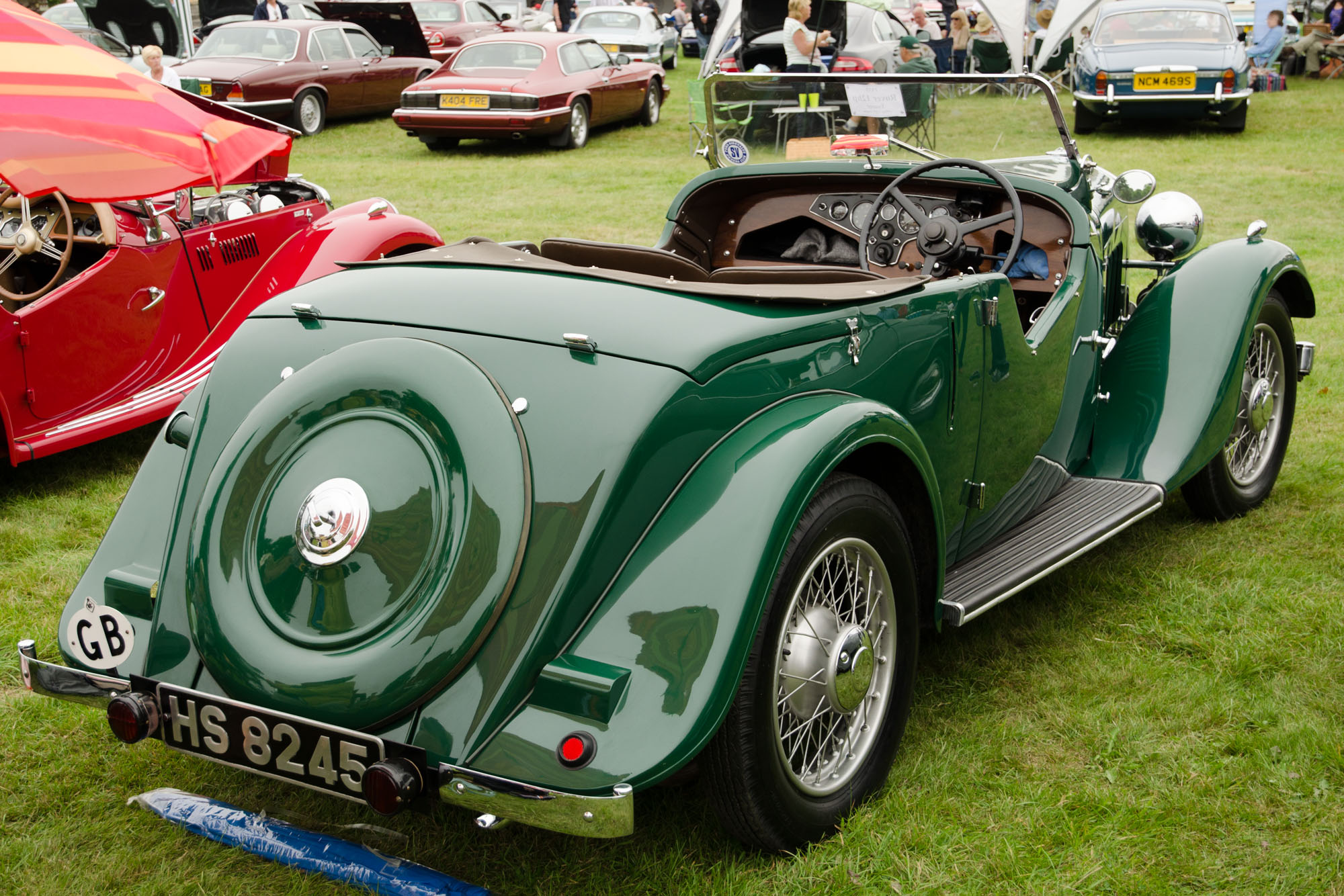 1935 Rover 12 tourer (DVLA) first registered 23 March 1935, 1308 cc Bodelwyddan Classic Car Show 20/07/2014